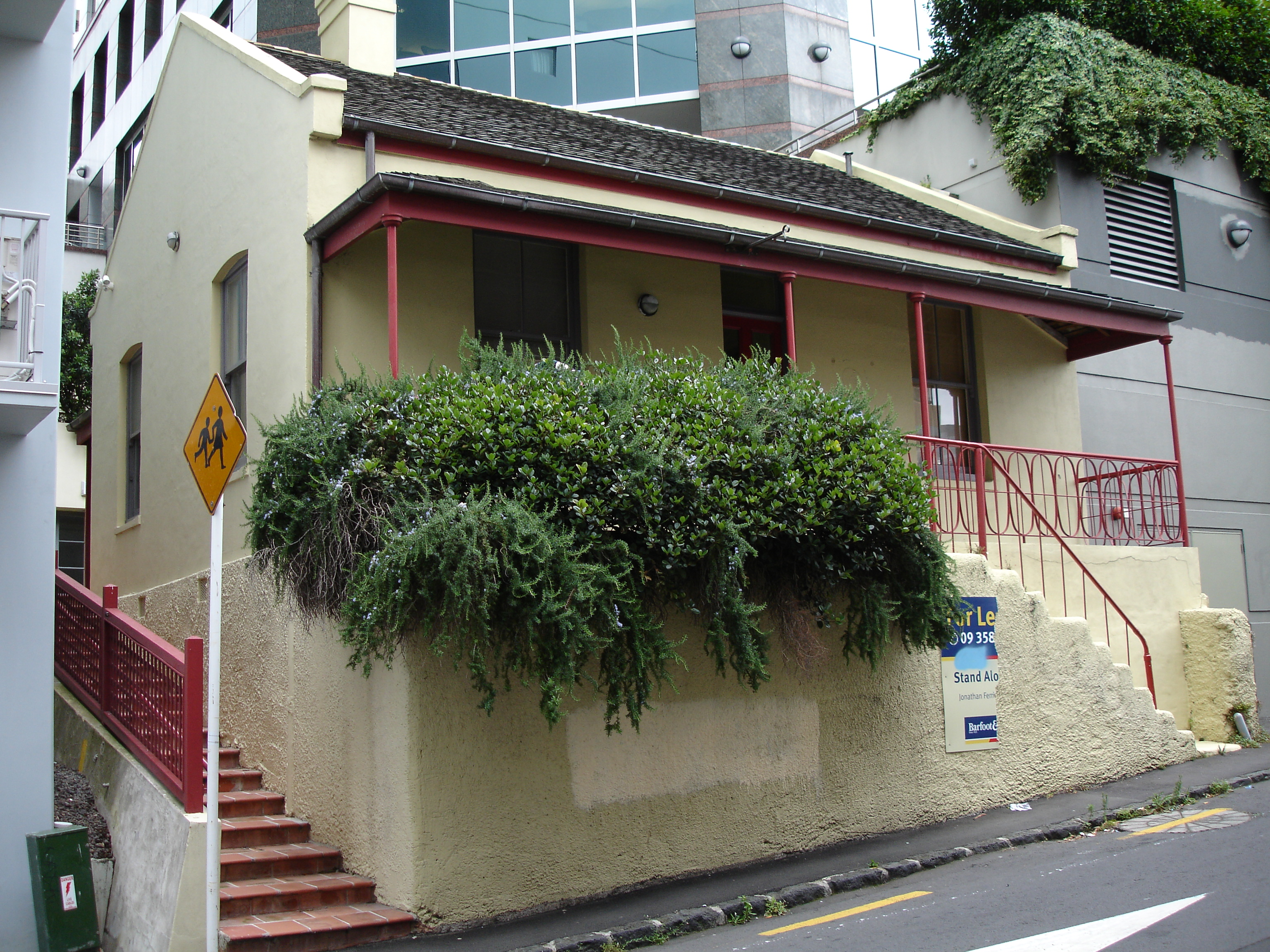 Bankside Cottage, Bankside St Central Auckland. The land was originally purchased in 1845 by Henry Keesing. He built the original cottage in 1848. Keesing sold the land and cottage in 1880. The current cottage was built in the 1880's the cottage was bought by Hancock & Co. Ltd, breweries in the mid 1930's. Hancock's were the proprietors of the Grand Hotel next door facing Princes St. From the 1930's the cottage was used to accommodate Grand Hotel staff. It was restored when the Grand Hotel was demolished and incorporated into the new development.